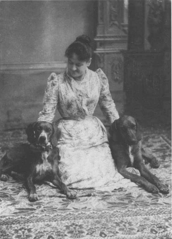 Mary ("Mollie") (née McKie) Goodrich Fly was a photographer who married photographer C.S. Fly in San Francisco. They arrived in Tombstone, Arizona Territory in December 1879 where they established a photography business and boarding house.